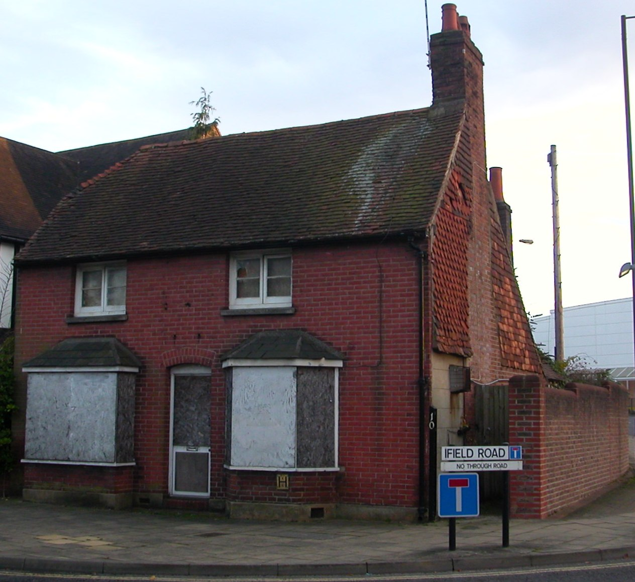 10 Ifield Road, Crawley, West Sussex, England. A mid-17th century timber-framed cottage with 19th-century alterations. Originally a bakery. Now derelict. Listed at Grade II by English Heritage (ref #363418)